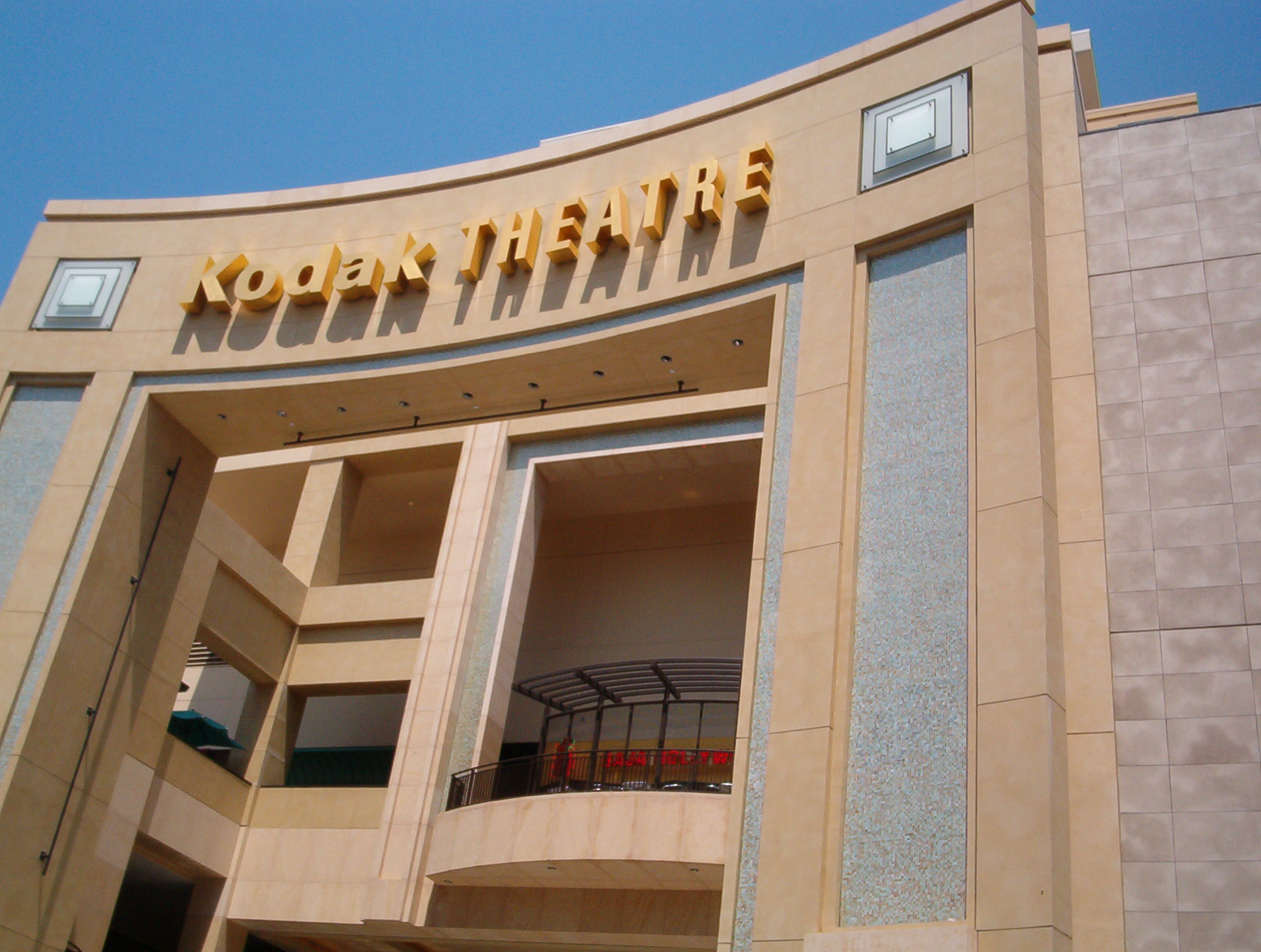 I am the author of this photo. Taken in 2004 in front of the Kodak Theater. No people are shown, and it is a good representation of a famous place. I deem it fair for public viewage.